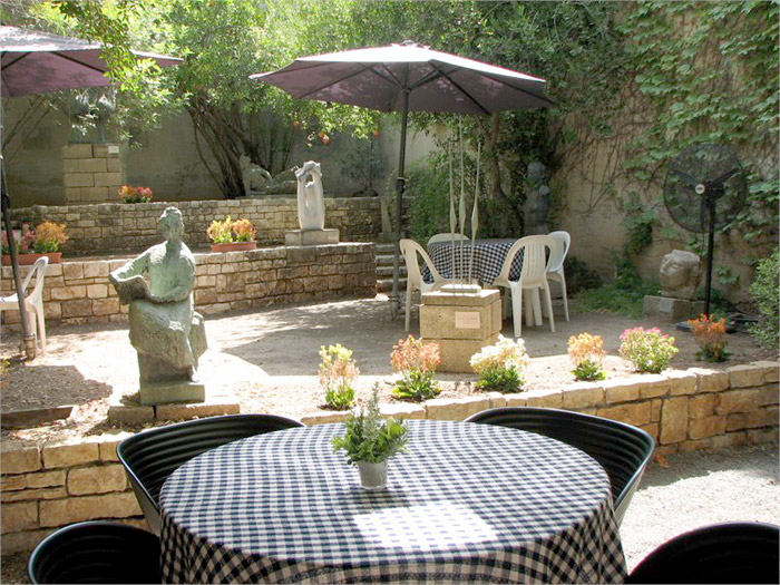 Ein Harod Museum inner courtyard, 2000s